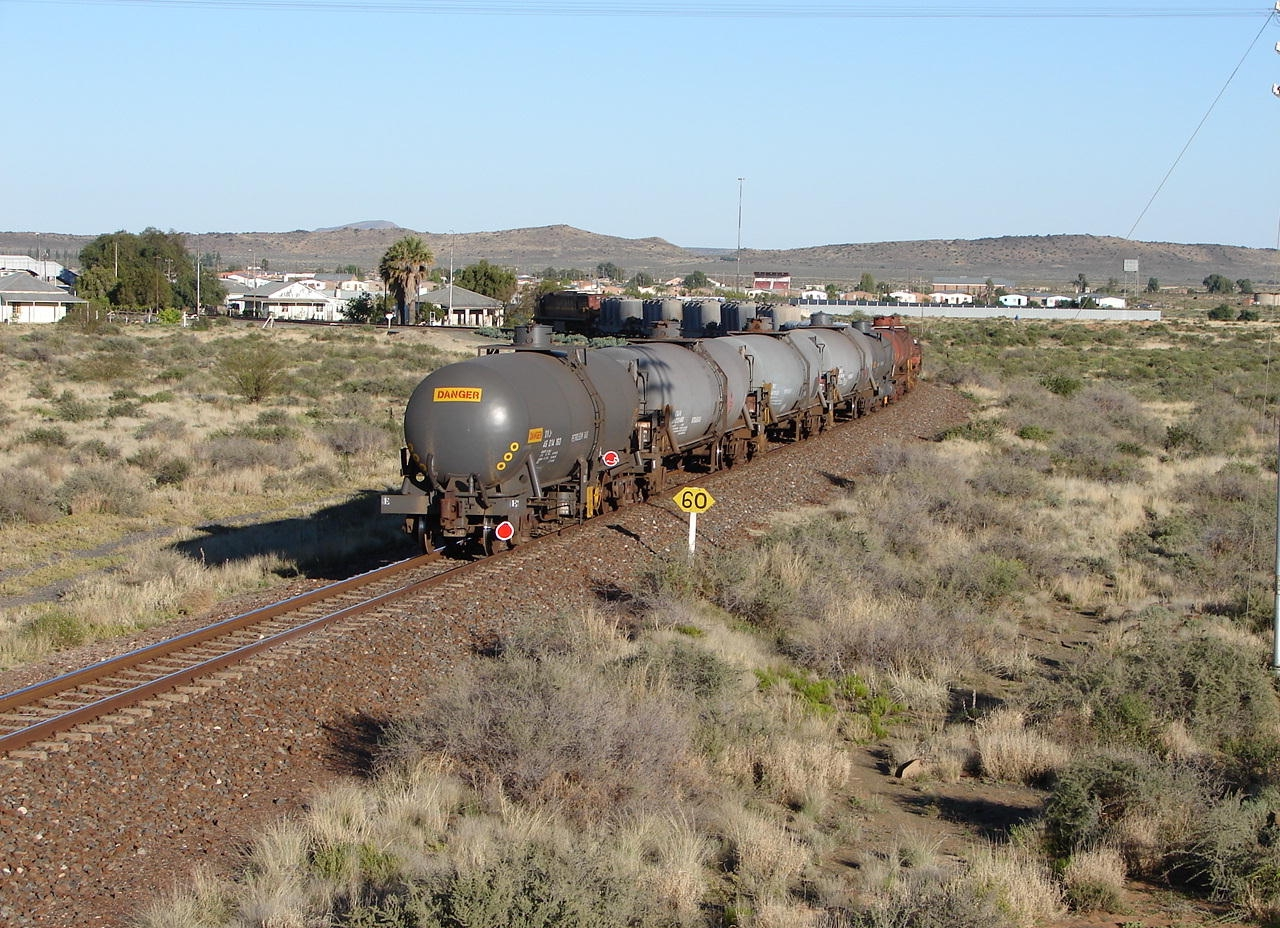 Britstown station, Northern Cape